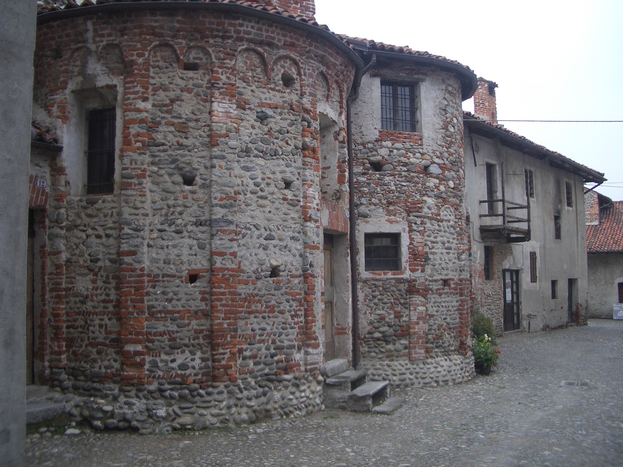 Ancient church of St Peter, The apse, Carpignano Sesia, Novara, Italy